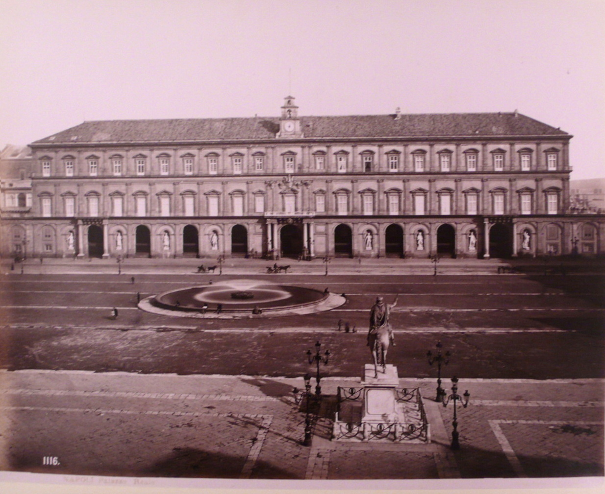 Giorgio Sommer (1834-1914), "Naples - Royal Palace". Catalogue # 1116. Today.